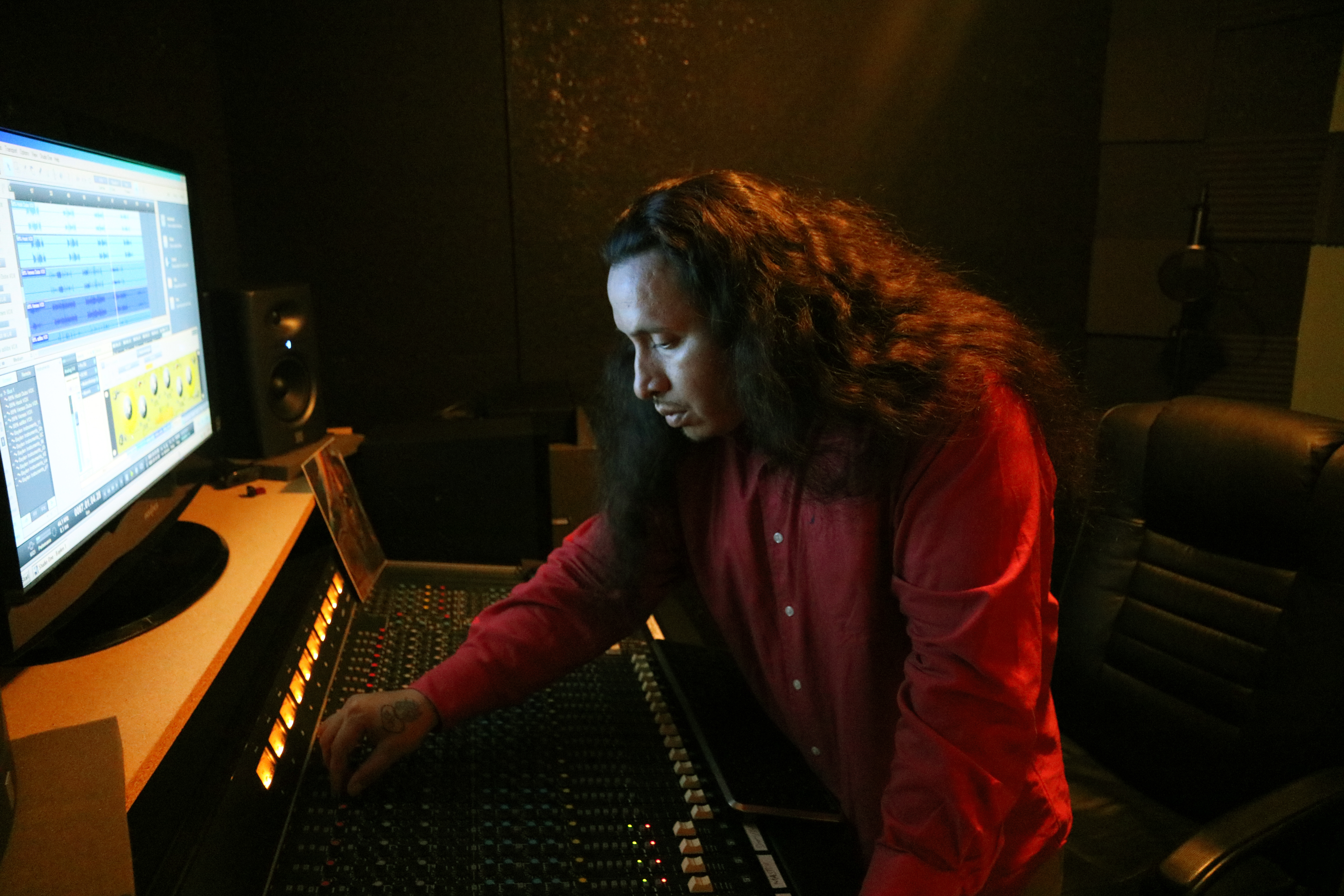 E. Smitty Producing & Engineering (Mixing)